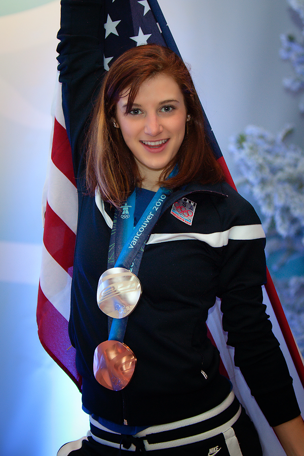 Olympic Speedskater Katherine Reutter